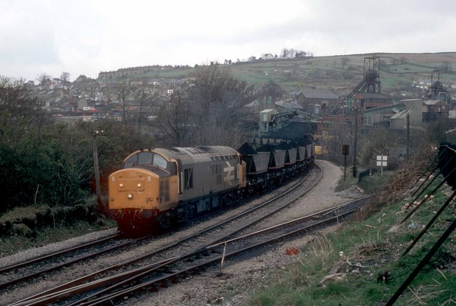 Coal from Deep Navigation A reminder of how the South Wales Valleys once looked. This view has changed since the photo was taken some twenty years ago! Coal loaded at Deep Navigation colliery waits to head down the valley to Aberthawe. No hurry today as the Barry train crew will hang about trying to make overtime! The view is a rather changed now as the railway track is gone.So have the mines and the winding gear seen behind the train.Of course the many jobs have gone as well both in the mines and the railway. There are no train crew based at Barry to move coal any more and no miners working at Deep Navigation. Both the Railway and the Mines have been privatised since this picture was taken.